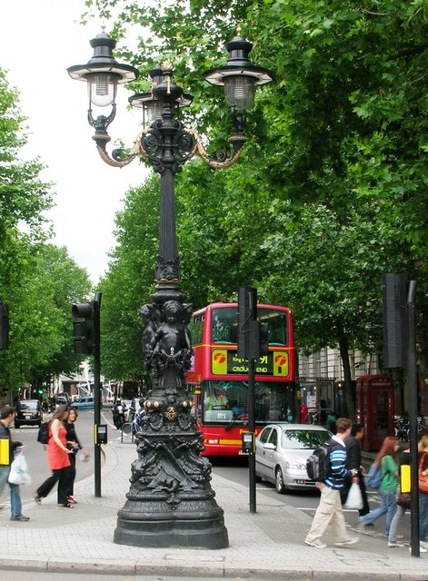 Northumberland Avenue WC2 Taken from the Trafalgar Square pedestrian crossing